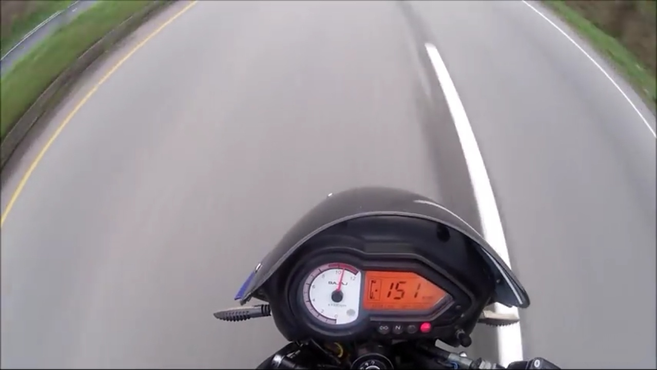 Riding my Pulsar 180cc in Mysore Road, India